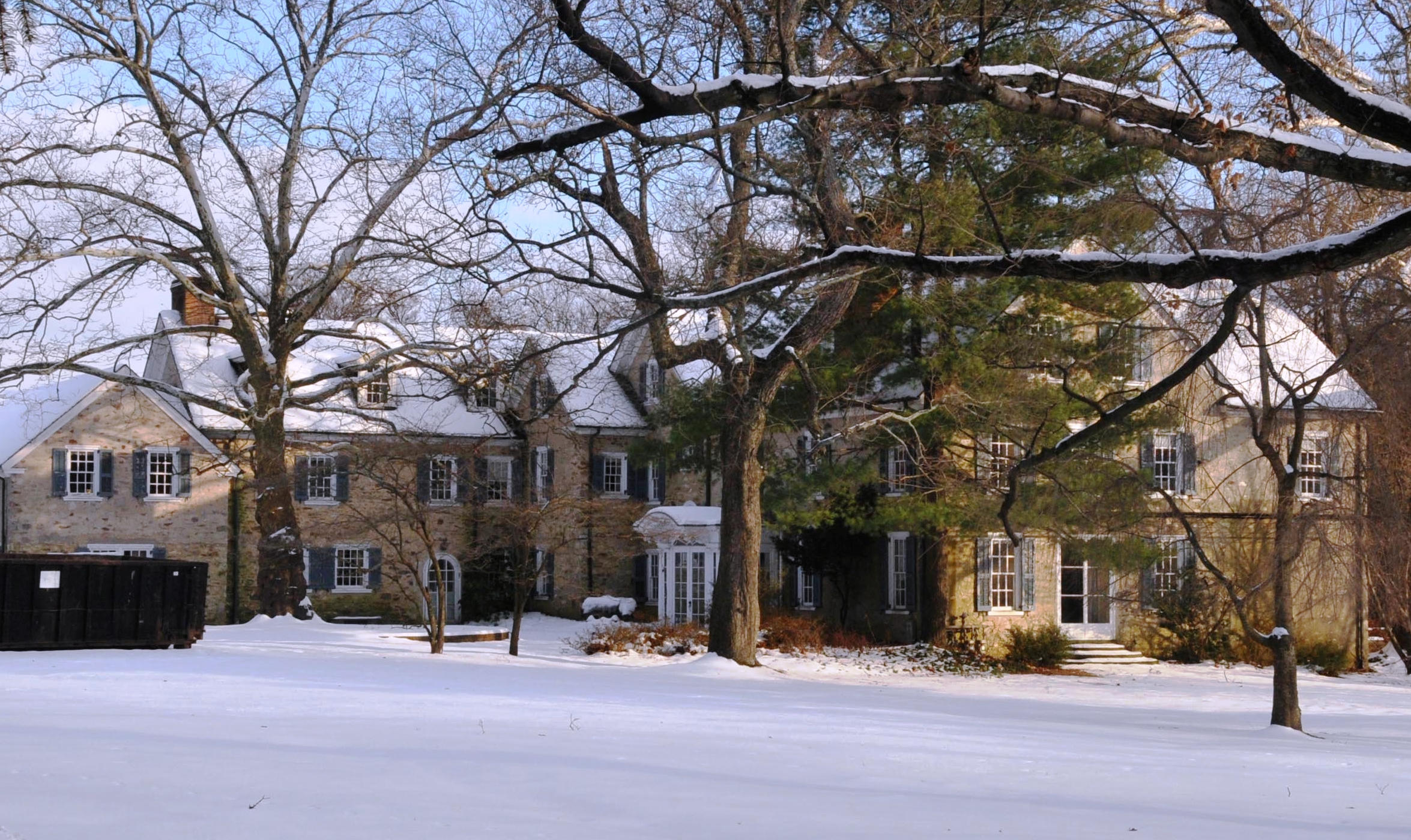 HERE WASHINGTON HAD HIS HEADQUARTERS FROM NOVEMBER 2ND TO DECEMBER 11, 1777 JUST BEFORE MOVING TO VALLEY FORGE. HOUSE WAS BUILT IN 1745 BY QUAKER GEORGE EMLEN